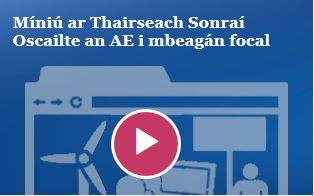 Screenshot from Open Data Portal